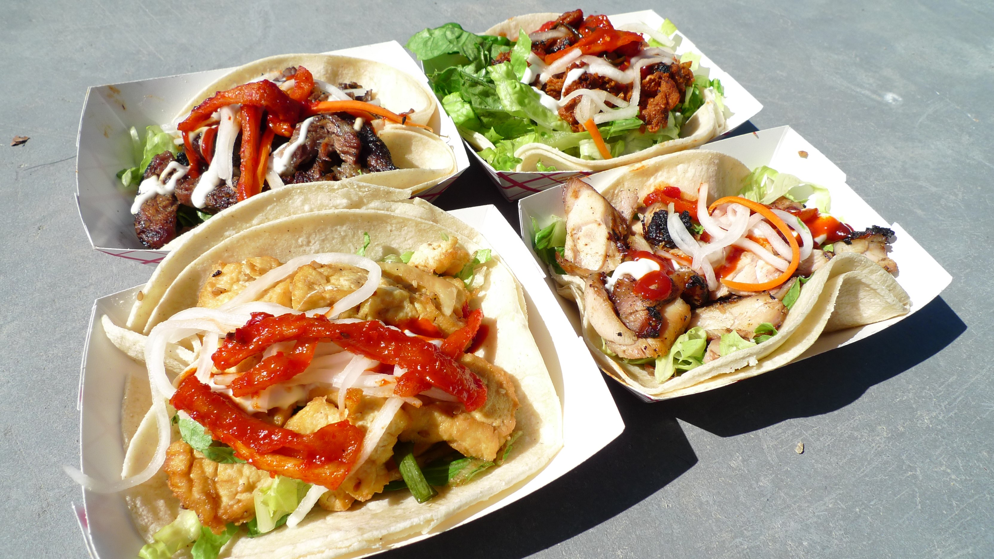 Korean tacos from Seoul on Wheels truck in the San Francisco Bay Area, clockwise from top left - ribeye, spicy pork, chicken, tofu